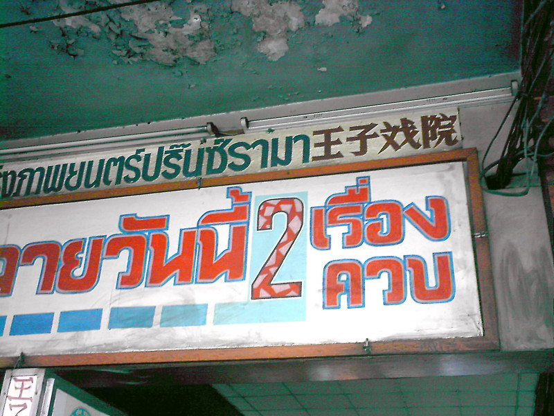 Sign of Prince's Cinema at Charoen Krung Road, Bangkok, Thailand 中文（香港）: 泰國，曼谷，石龍軍路，王子戲院，正門入口的招牌